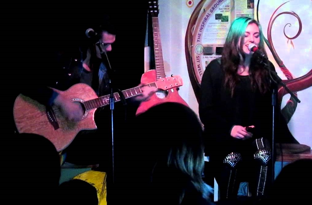 VersaEmerge performing a surprise acoustic set in London, UK.